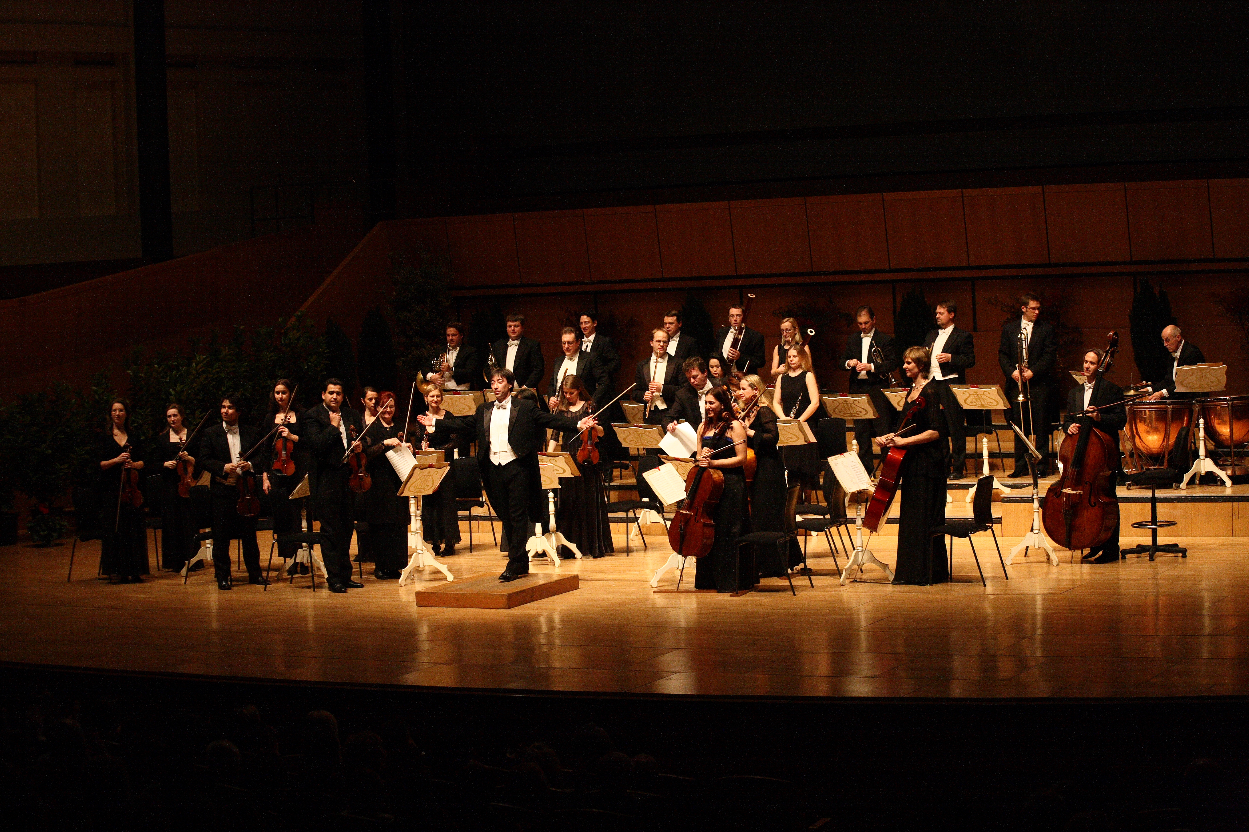 Concert in Thessaloniki